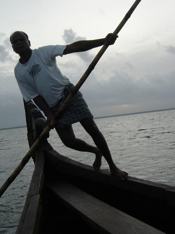 A boatman propels a traditional kettuvallam.